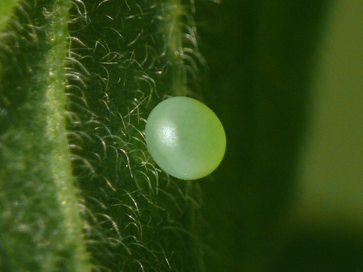 Egg of the Broad-bordered Bee Hawk-moth (Hemaris fuciformis) on Fly honeysuckle (Lonicera xylosteum).